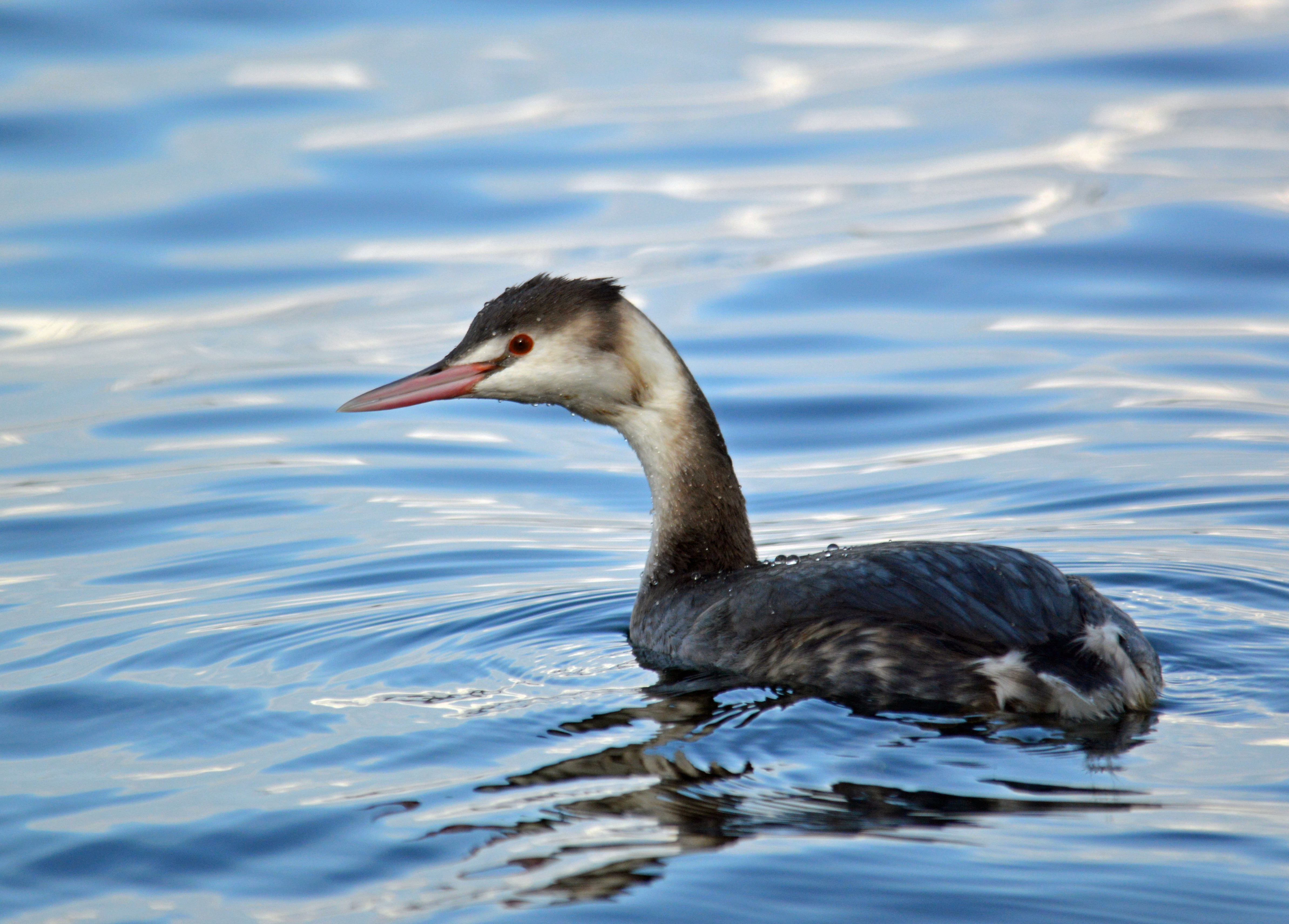 Great Crested Grebe (Podiceps cristatus), lake in Zell am See, Salzburg (state), Austria. Some Great Crested Grebes are only winter guests, others stay all over the year at the lake and in the Zeller See nature reserve.